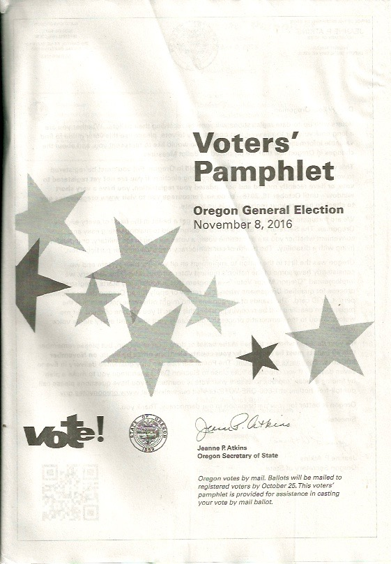 Oregon Voters' Pamphlet for November 2016 general, mailed to voters before the election. This material is in the public domain, because a) I release the scan into the public domain, and b) the cover of the pamphlet is composed entirely of non-literary works and shapes/text too simple to be copyrighted, as well as a public domain signature and the State Seal of Oregon, which is in the public domain because it was published before 1923.